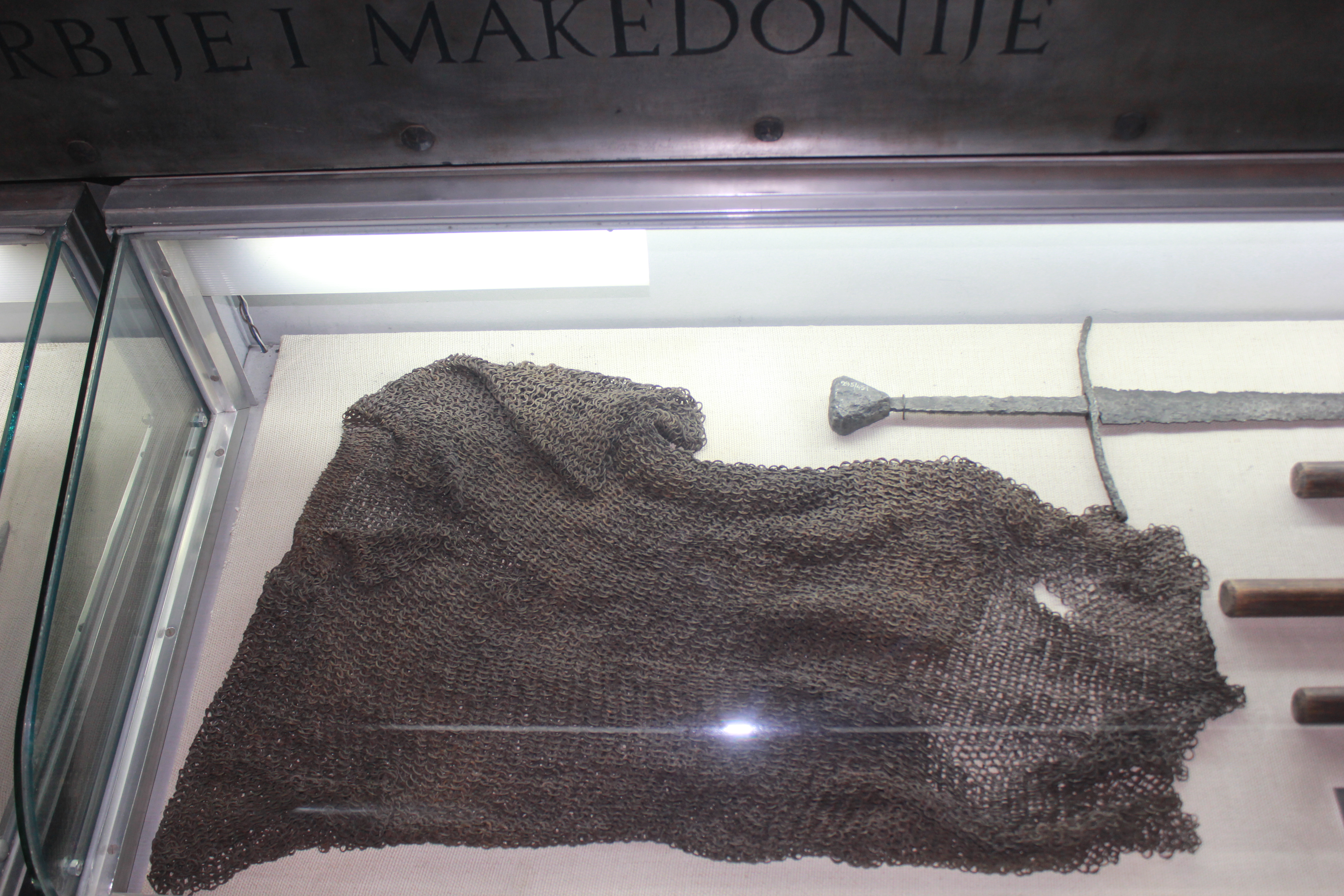 Medieval chainamail of Serbian army